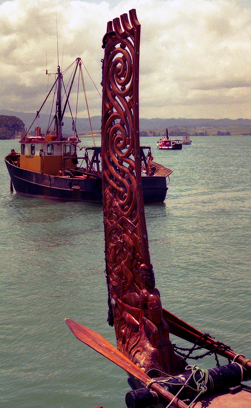 Close-up of waka sternpost.